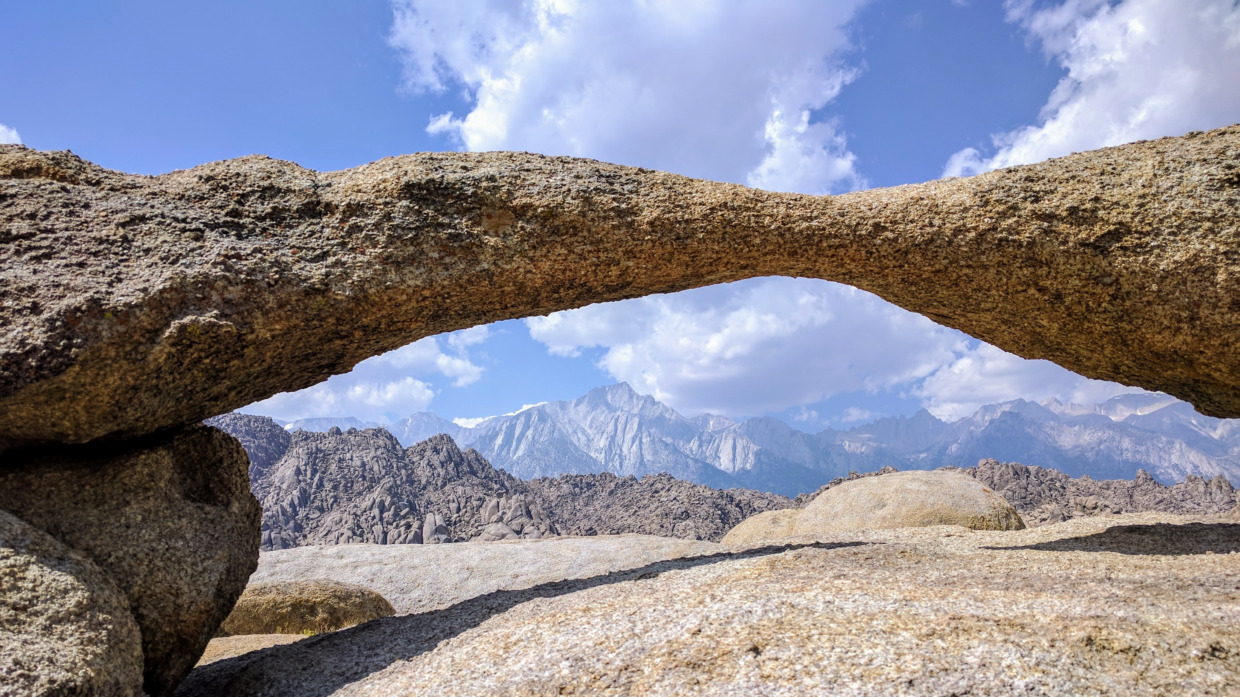 Lathe Arch